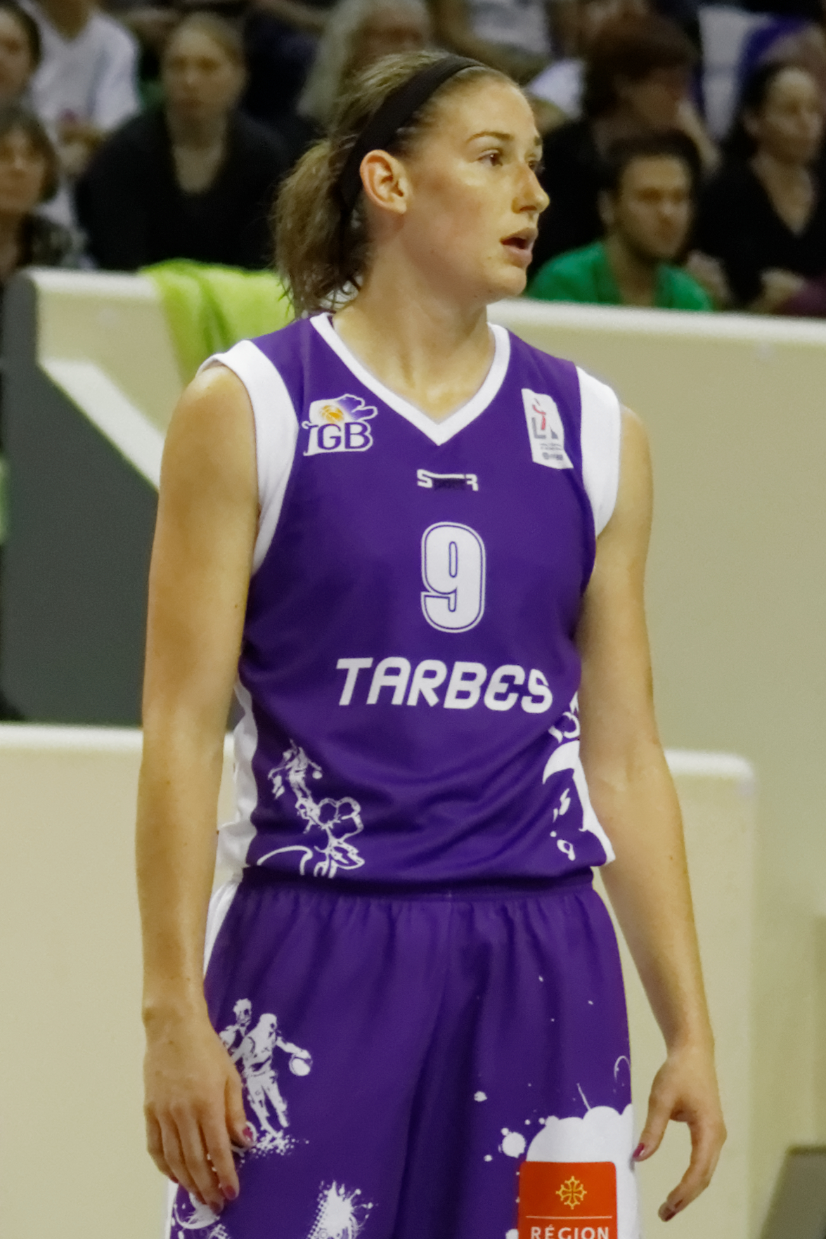 Open LFB, Charleville-Mézières - Tarbes, October 5th, 2013.